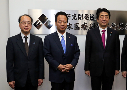 Makoto Suematsu, President of Japan Agency for Medical Research and Development, attended the ceremony to commemorate the establishment of Japan Agency for Medical Research and Development with Shinzō Abe, Prime Minister, Akira Amari, Minister of State for Economic and Fiscal Policy, and Hiroto Izumi, Special Advisor to the Prime Minister, at the Yomiuri Shimbun Building in Chiyoda Ward, Tōkyō Metropolis on April 3, 2015.